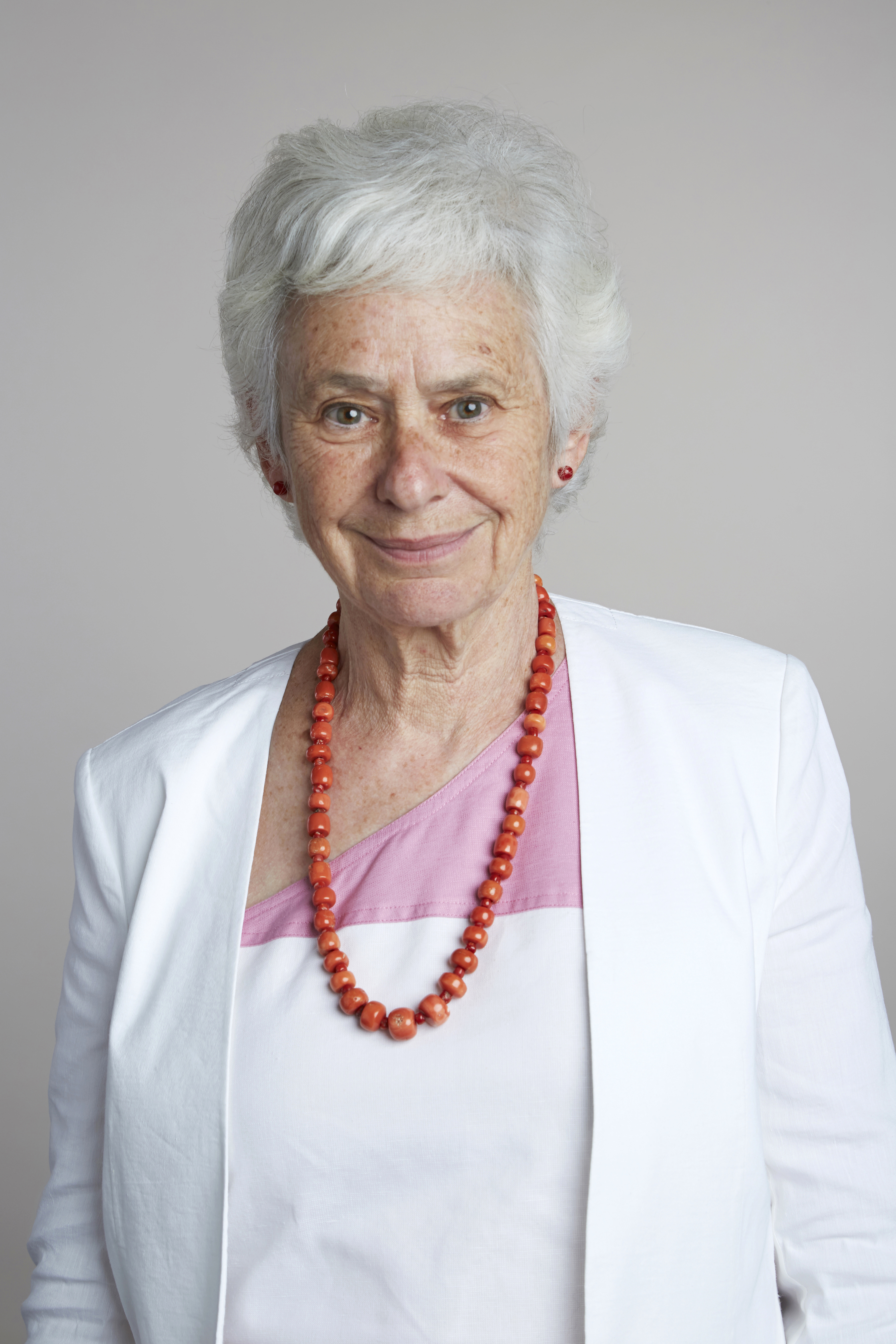 Gail Roberta Martin is a professor emerita in the Department of Anatomy, University of California, San Francisco. She is known for her pioneering work on the isolation from normal mouse embryos of pluripotent stem cells, for which she coined the term ‘embryonic stem cells’. She is also widely recognized for her work on the function of Fibroblast Growth Factors (FGFs) in the development of many organs including the limb and the role of negative feedback mechanisms for regulating FGF signaling in the mammalian embryo. These studies led to an appreciation of the exquisite sensitivity of developmental and cell biological processes to even small changes in the level of FGF signaling in vertebrate organogenesis. Martin has received numerous awards and honors including the Edwin Grant Conklin Medal from the Society for Developmental Biology (2002), the Pearl Meister Greengard Prize (Rockefeller University, 2007), an honorary Doctorate of Science (DSc [Med]) from University College London (2011) and election as a member of the US National Academy of Sciences (Section 22, Cell and Developmental Biology, 2002). Attribution: The Royal Society